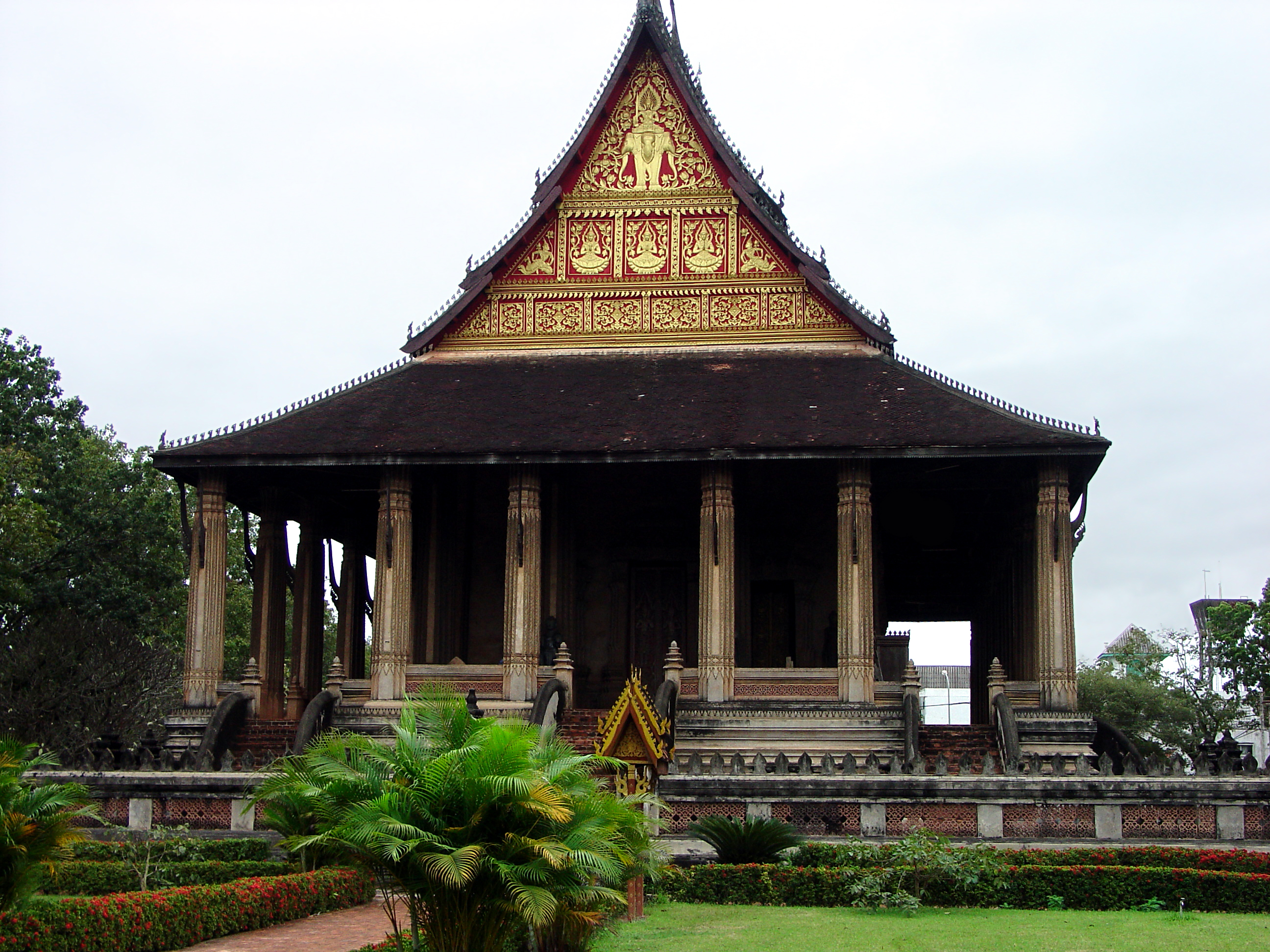 Vientiane, Laos 20th century restoration of 1565 original Ho Phra Keo was built in 1565 as a royal chapel and repository for the celebrated statue of the Emerald Buddha, which the Laotians had taken from Northern Thailand in 1551. The jasper statue remained in the temple until 1778, when the Thais invaded and recaptured the statue, taking it off to Bangkok, where it remains to this day. The Lao temple was destroyed in 1828-1829 during the Thai sack of Vientiane; rebuilt in 1936; and restored again in 1993.